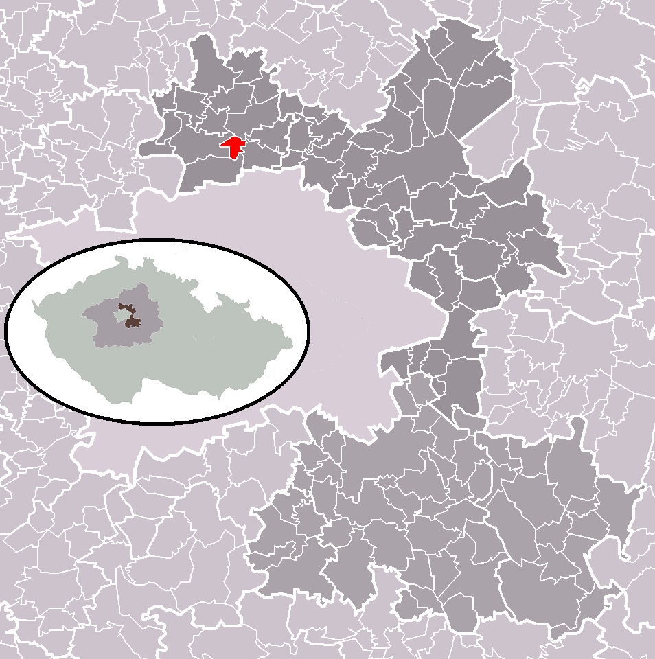 Location of Sedlec municipality within Prague-East District and administrative area of Brandýs nad Labem-Stará Boleslav as a Municipality with Extended Competence.